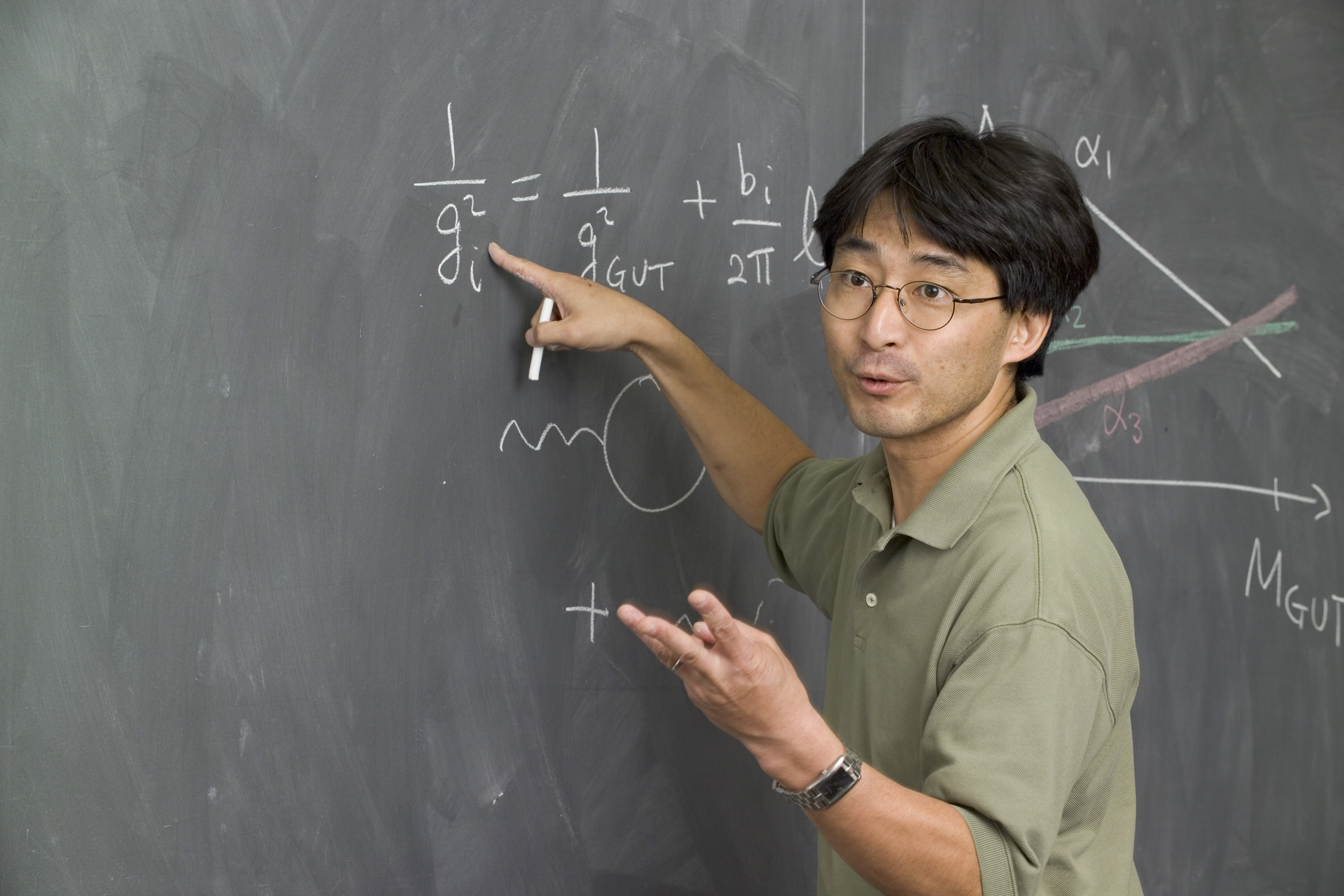 Hitoshi Murayama, MacAdams Professor of Physics, University of California, Berkeley, wrote on chalkboard on May 26, 2005.